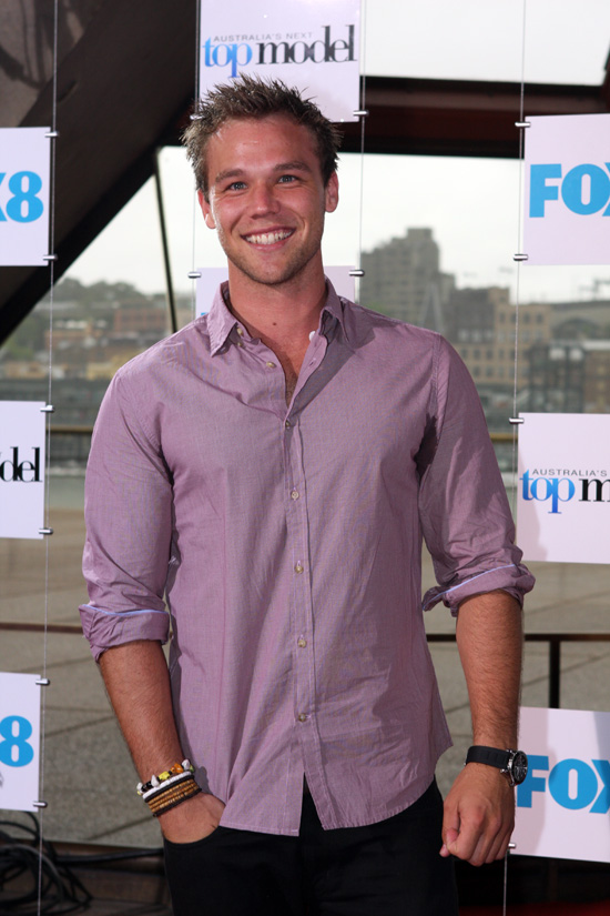 Lincoln Lewis at Fox8's Australia's Next Top Model Launch event